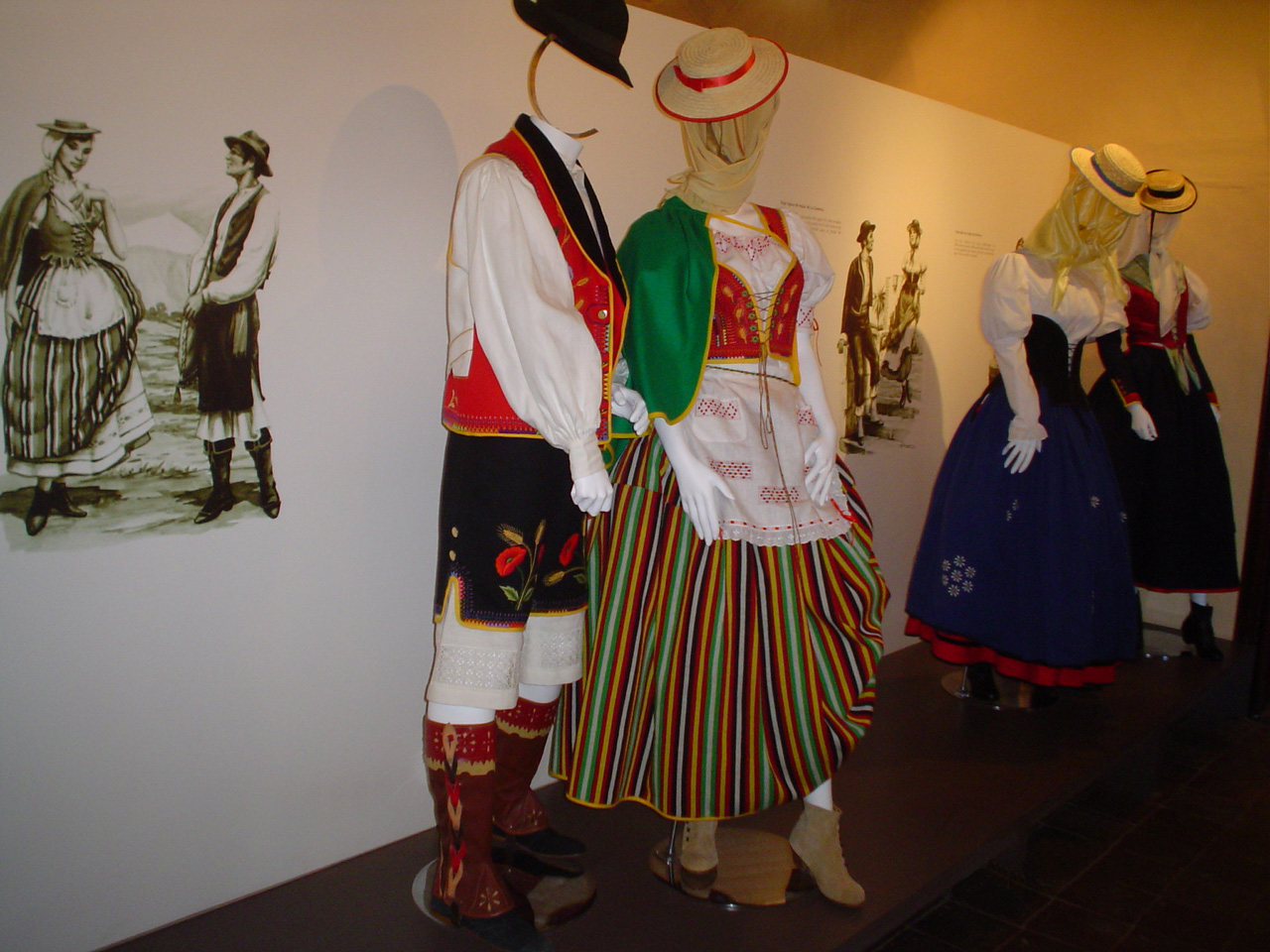 Typical historical clothing of the Canary Islands